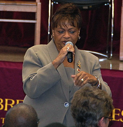 [New York] City Council member Inez Dickens addresses the crowd of students, elected officials and education administrators as Bread & Roses Educational Complex is renamed after businessman and social activist Percy Sutton. (credit: Elbert Garcia)